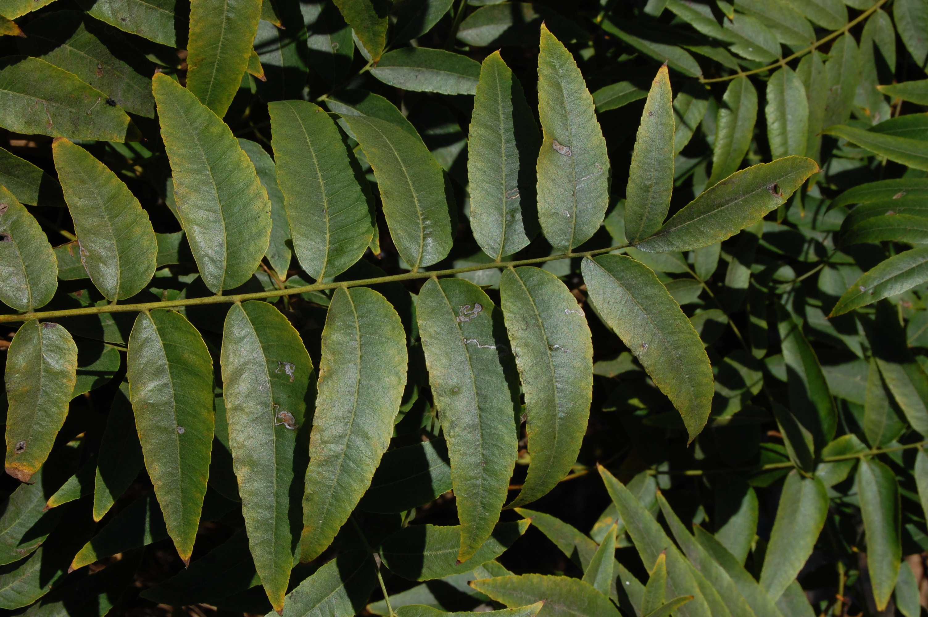 California Black Walnut